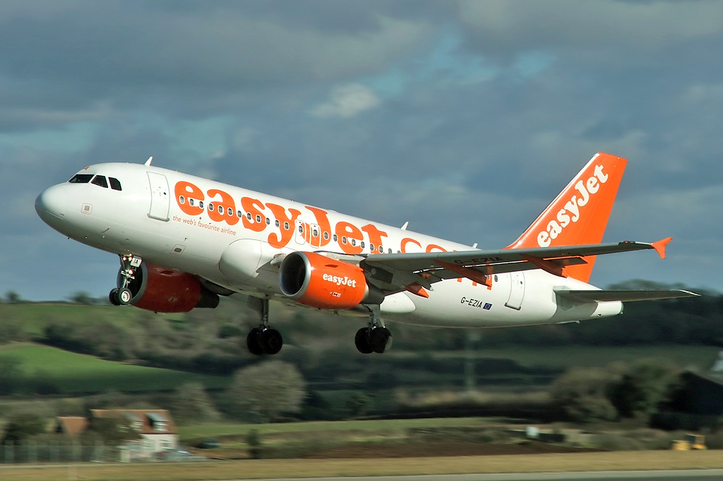 Copyright Tom Collins. easyJet A319 G-EZIA departing Bristol Airport